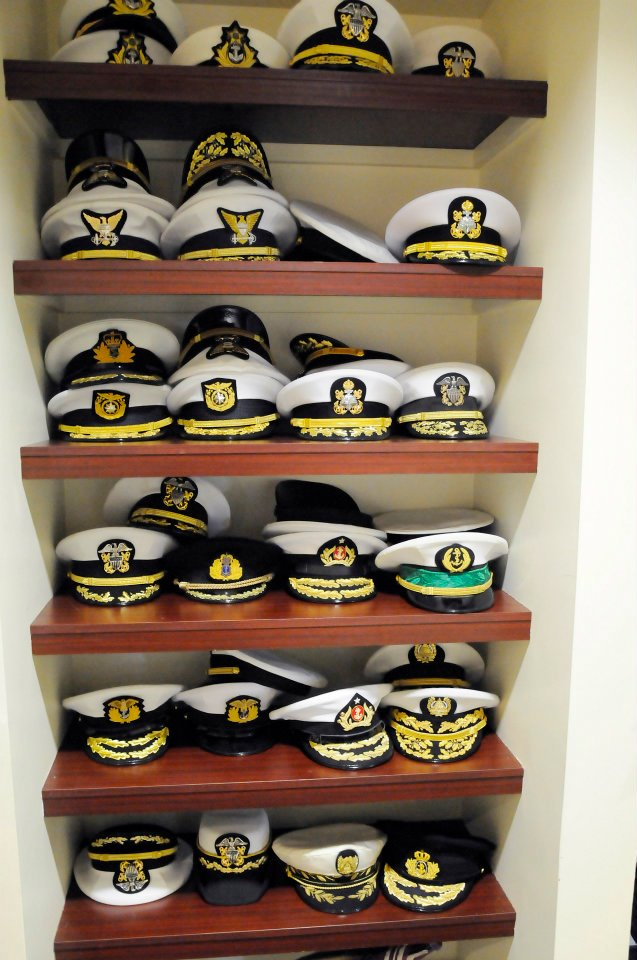 NEWPORT, R.I. (Oct. 19, 2011) Senior leaders from International navies stack their covers on a shelf during the 20th International Seapower Symposium at the U.S. Naval War College. More than 170 senior officers from more than 100 countries attend the symposium, a biennial event hosted by the CNO. (U.S. Navy photo by Mass Communication Specialist 2nd Class Shannon E. Renfroe/Released)